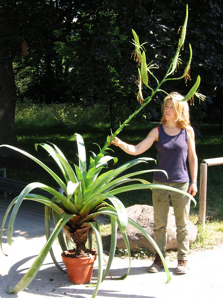 Tillandsia grandis in cultivation at the Botanical Garden of Heidelberg, Germany; This plant came into bloom in the summer of 2005. It was originally collected by Prof. Werner Rauh in Mexico in 1974 and was propably flowering for the first time since then.